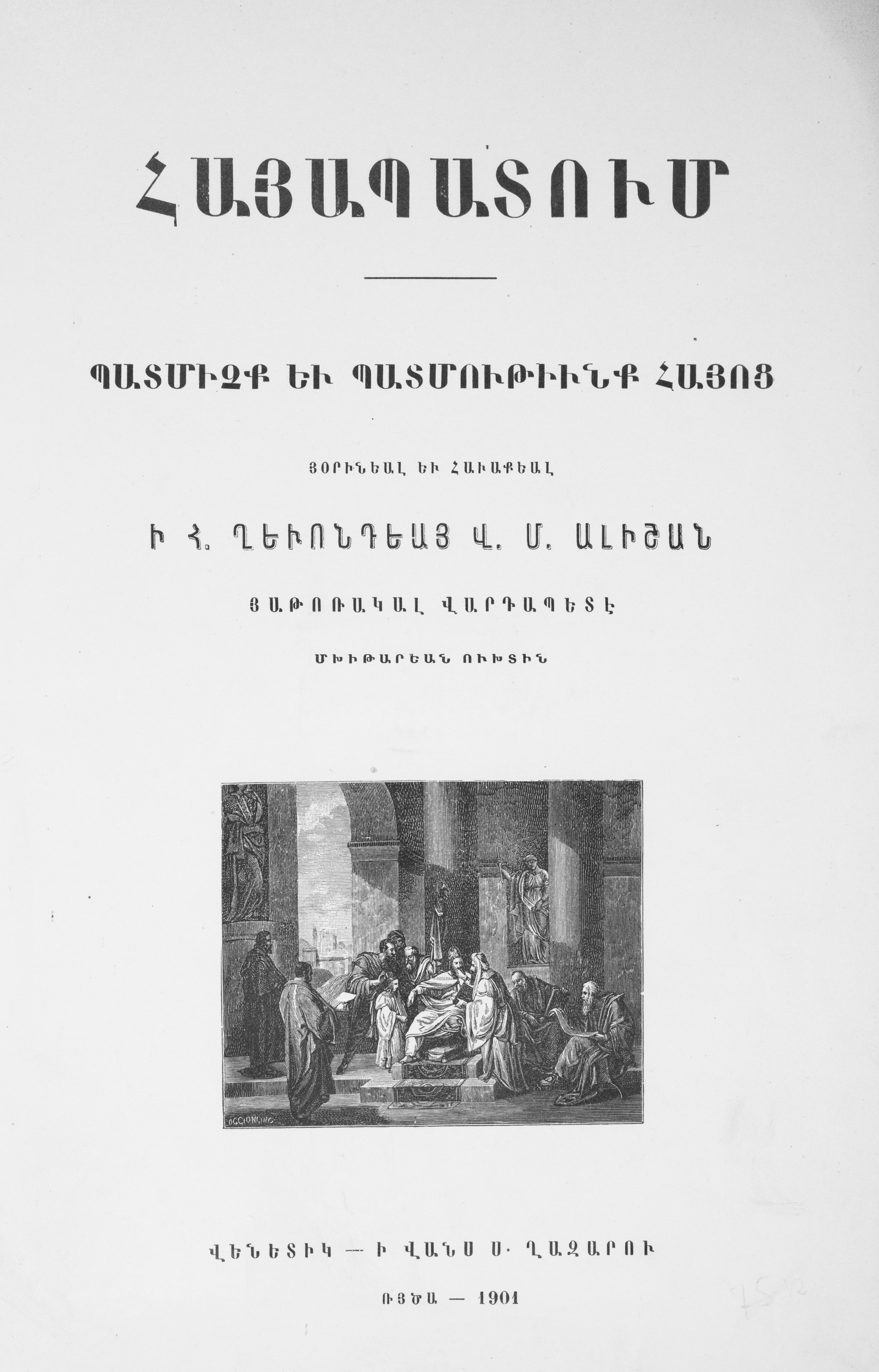 Title page of Father Ghevont Alishan's 1901 book Հայապատում (Hayabadoom -- Armenian History) published in Venice.